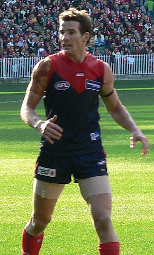 Ben Holland